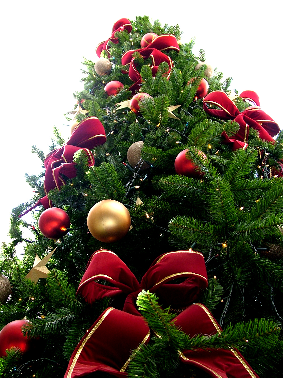 Christmas tree